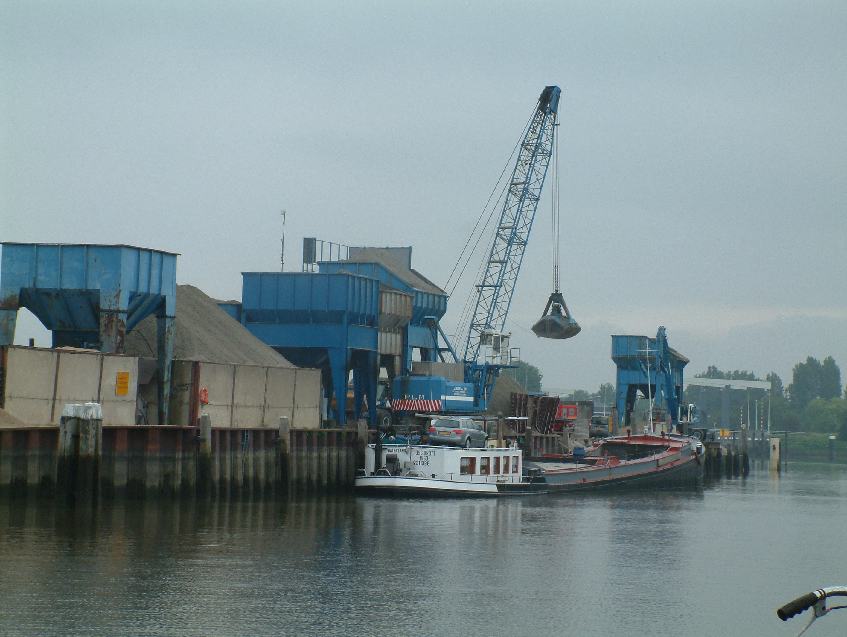 Unshipping sand near Gouda, The Netherlands